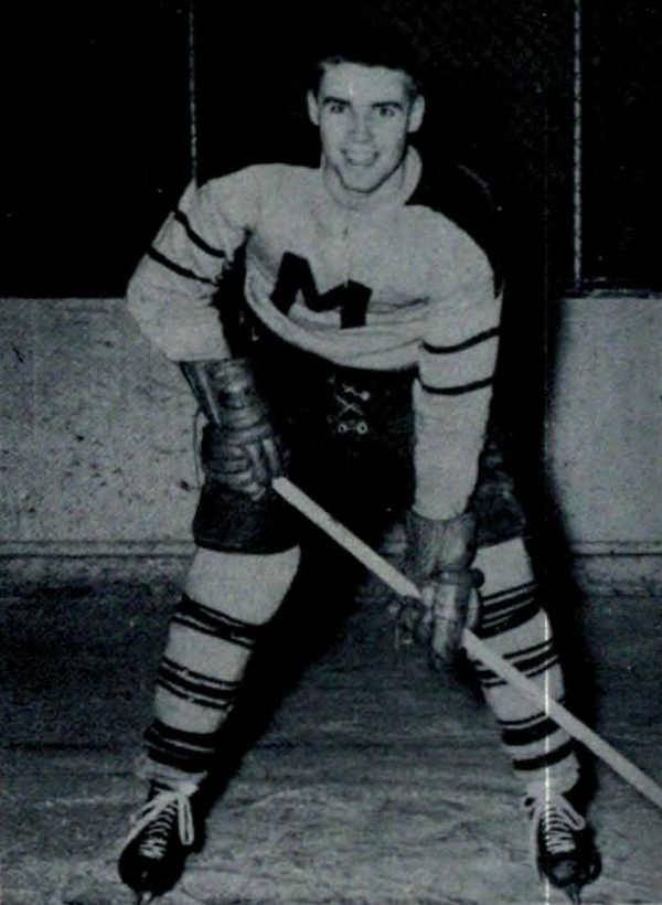 Terry Clancy, circa 1962